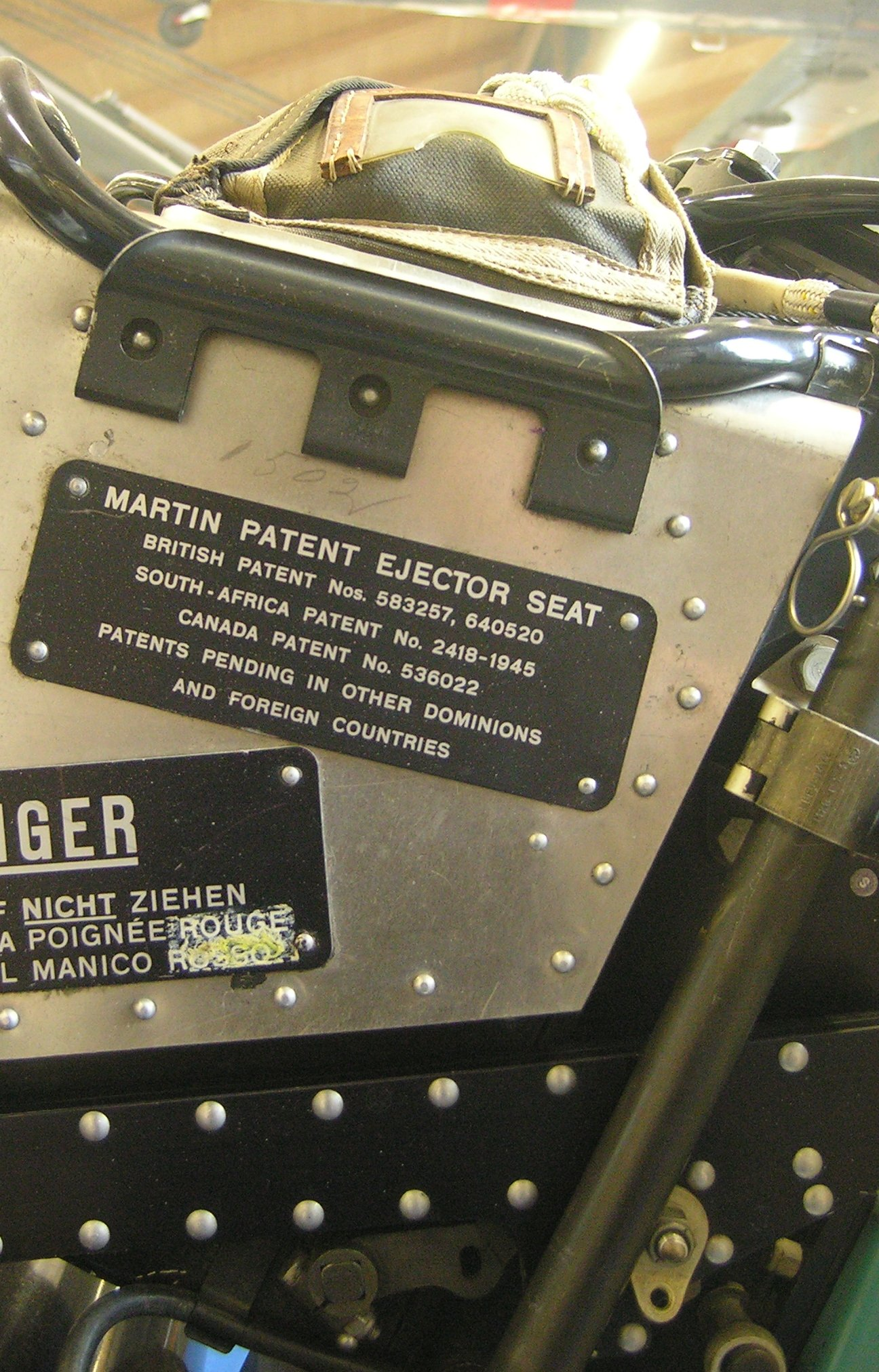 The top of the military airplane ejector seat with plate, stating that this design is covered with various patents.